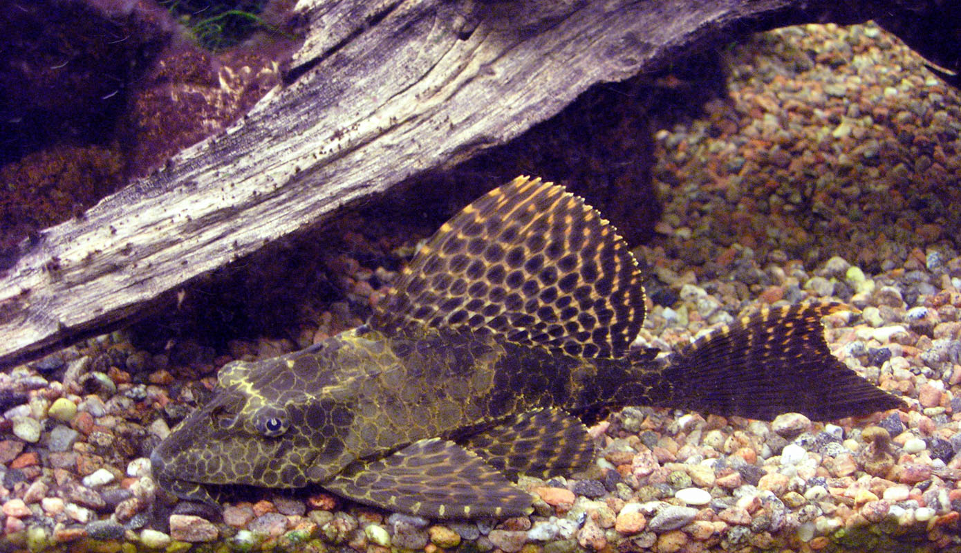 Sailfin pleco (Pterygoplichthys gibbiceps) in a fish tank